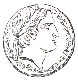 Drawing of a coin of Demetrios I Soter, a ruler of the Hellenistic Seleucid Empire. Greek inscription ΒΑΣΙΛΕΩΣ ΔΗΜΗΤΡΙΟΥ ΣΩΤΗΡΟΣ means "Of king Demetrius the Savior"